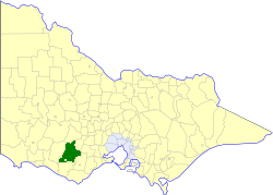 Location of the former Shire of Hampden within Victoria.